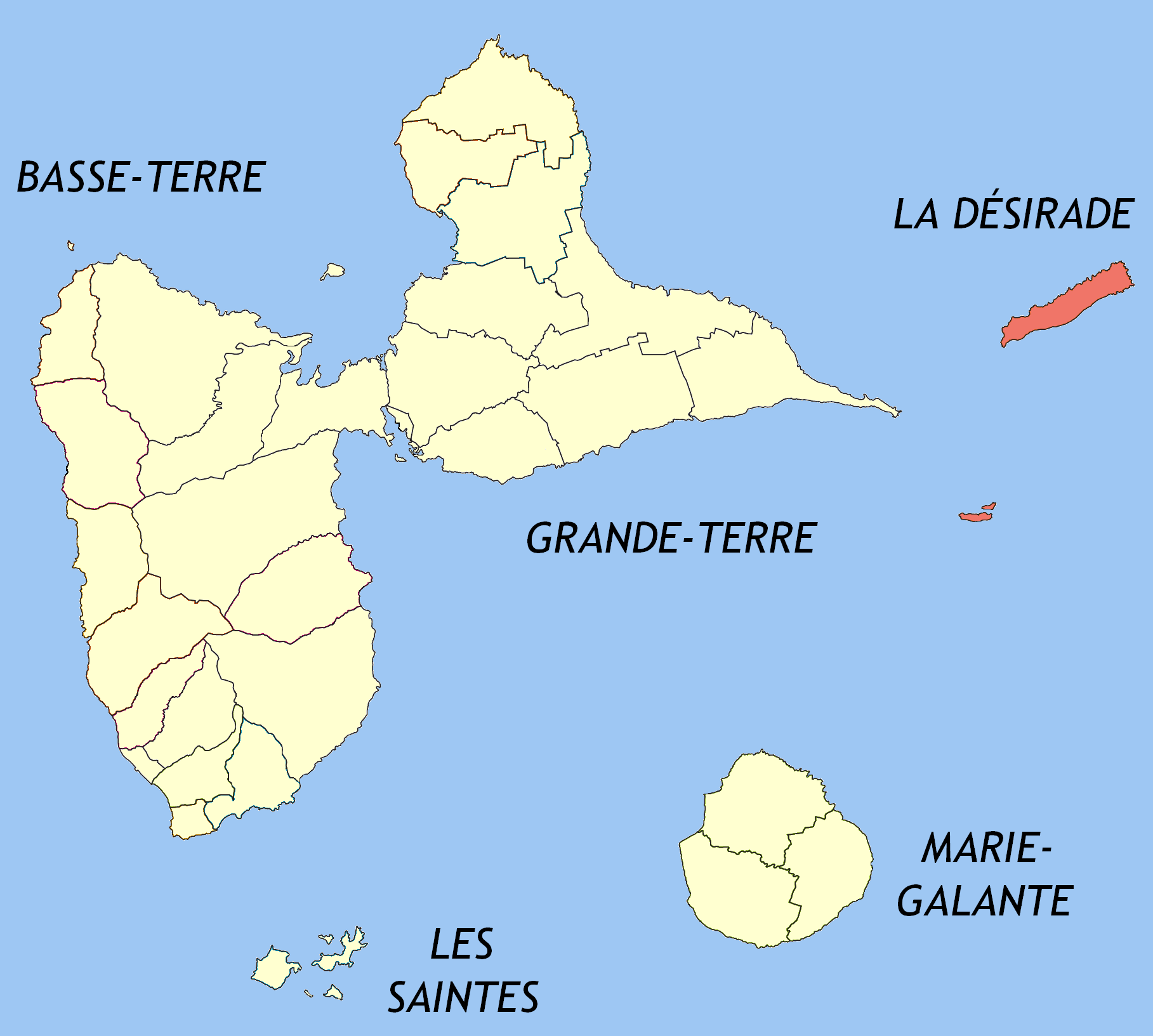 Created map myself.